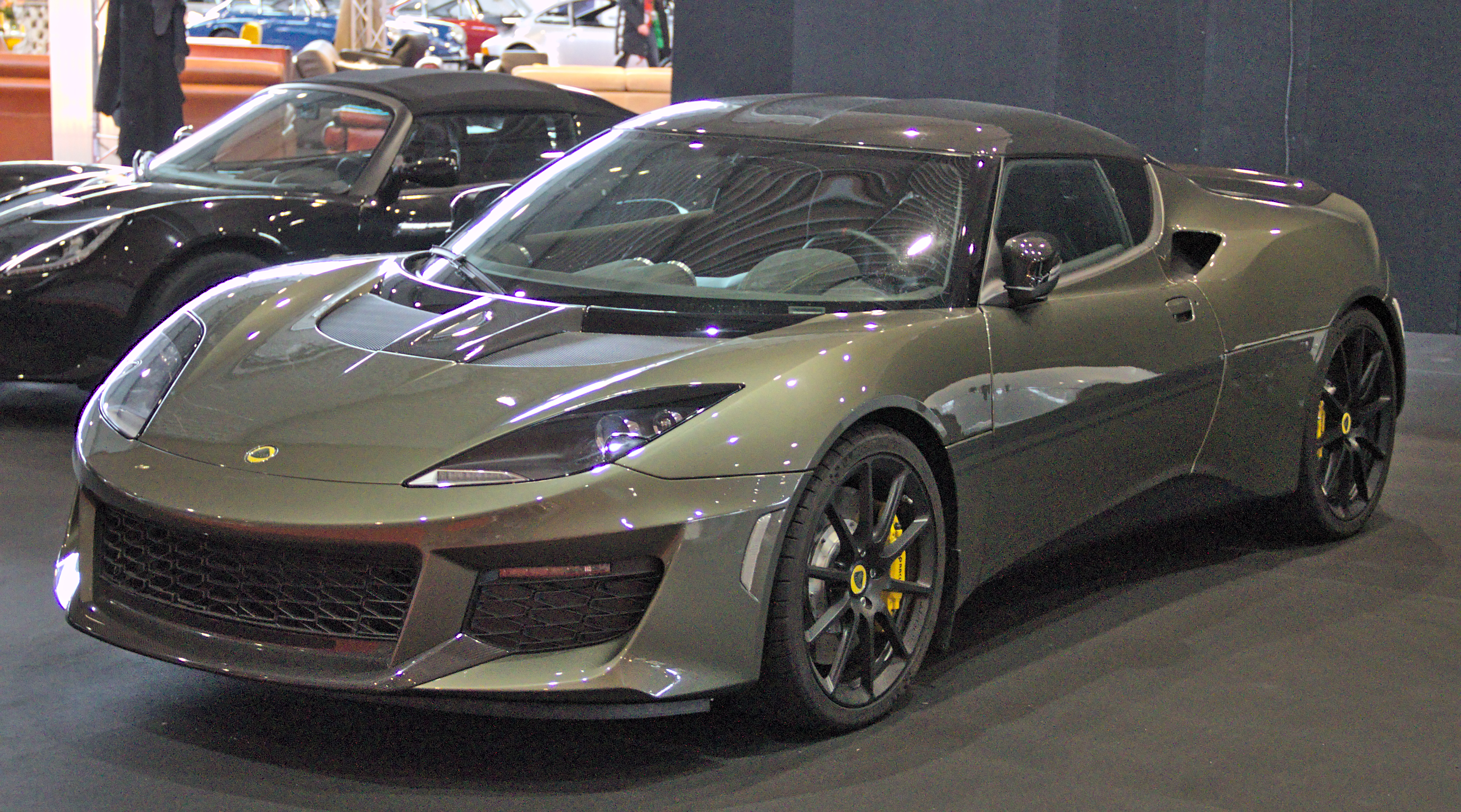 Lotus_Evora_Sport_410 at Retro Classics 2020